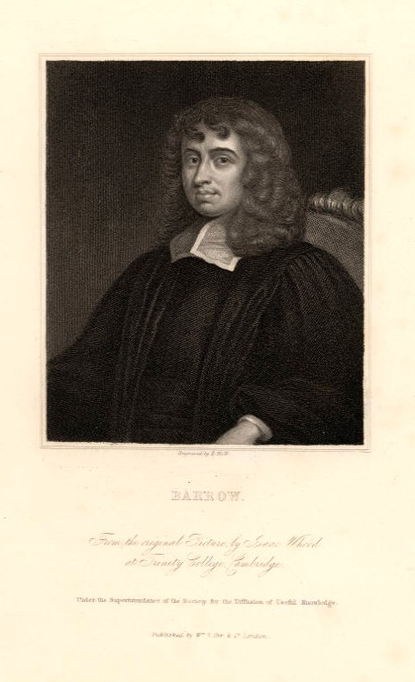 Isaac Barrow (1630-1677), from the original picture by Isaac Whood (1689-1752)